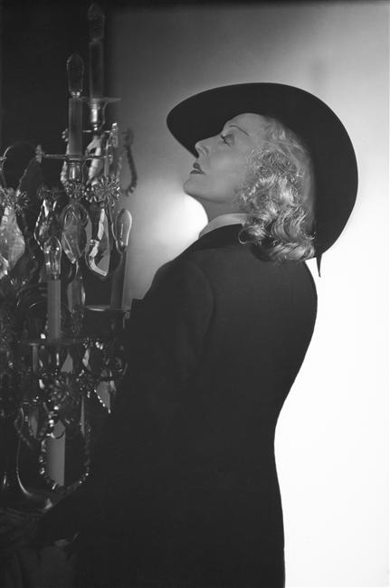 Studio photo